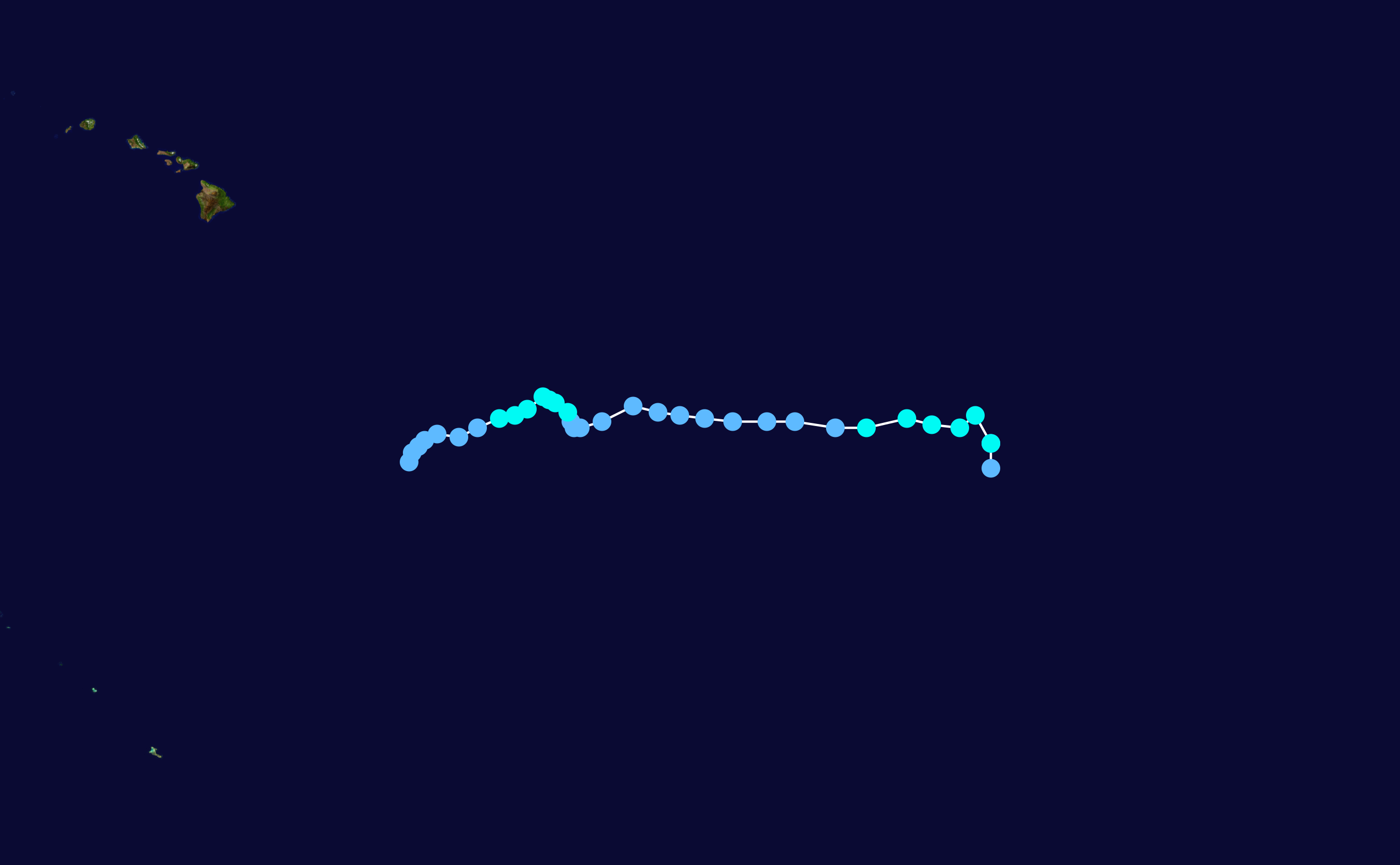 Tropical Storm Lowell (2002) track. Uses the color scheme from the Saffir-Simpson Hurricane Scale.